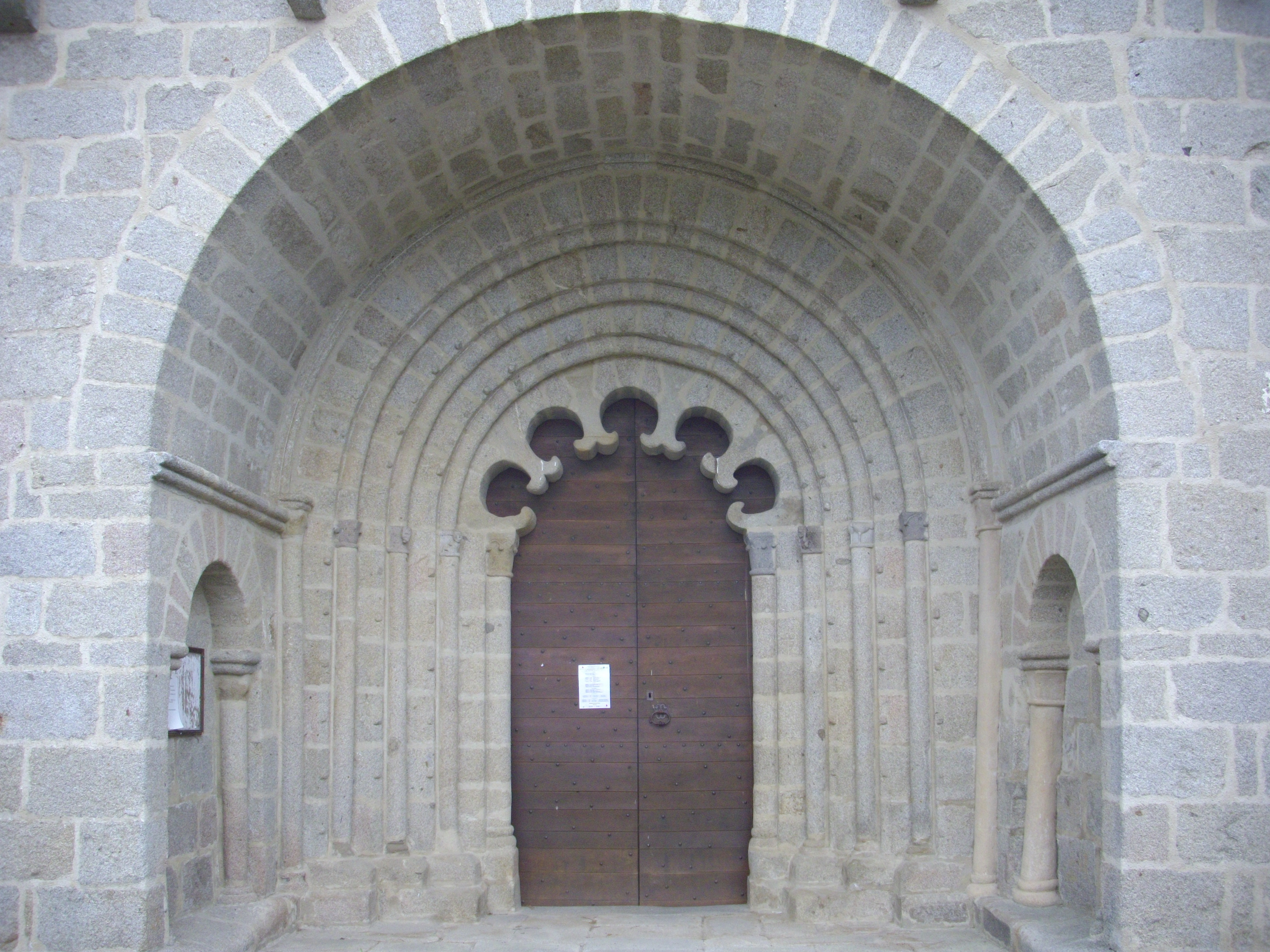 Porch of Saint Martin church of Margerides (Corrèze, France) .